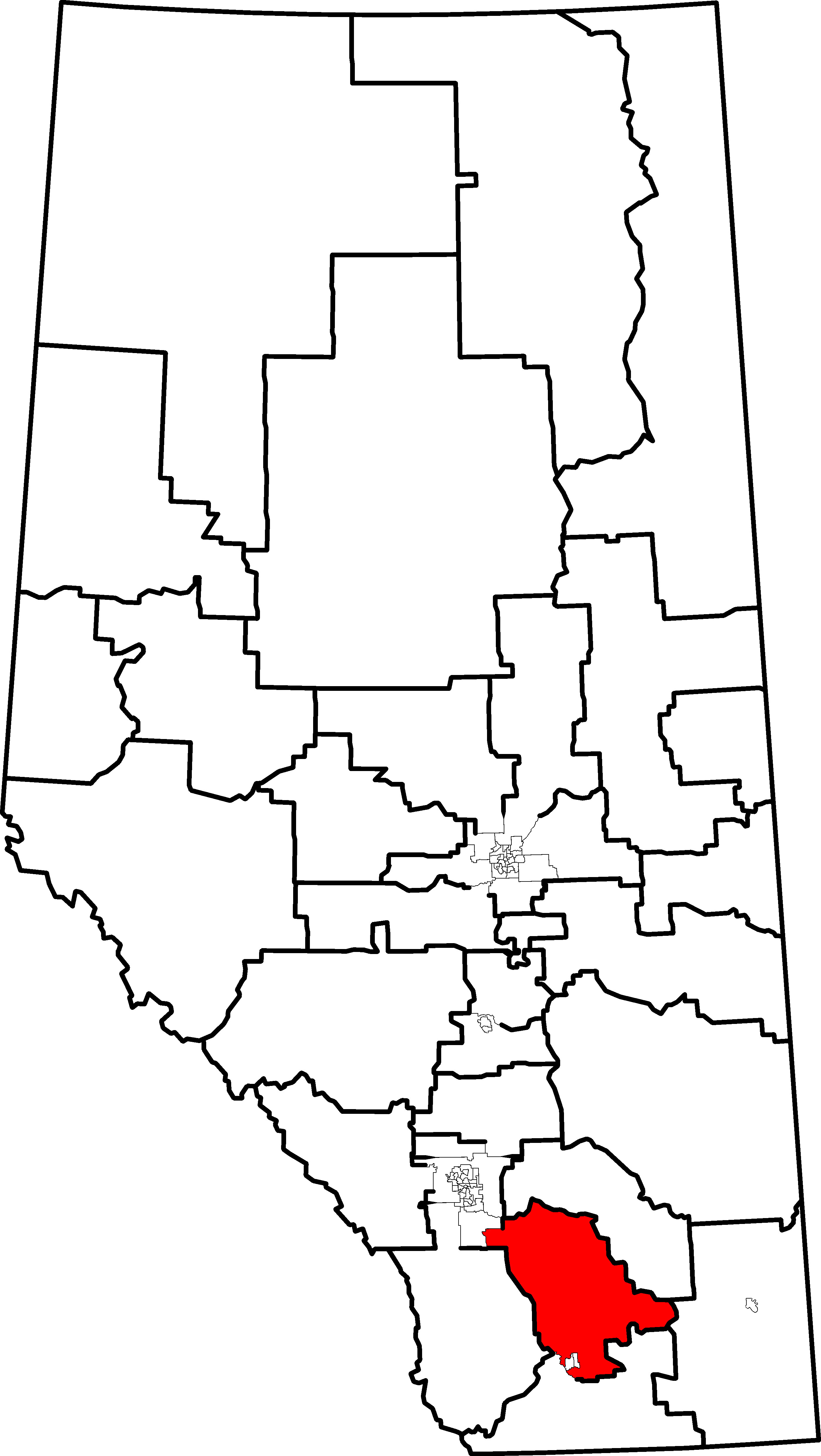 A map of the Alberta provincial electoral districts, effective 2010. Little Bow is highlighted in red.